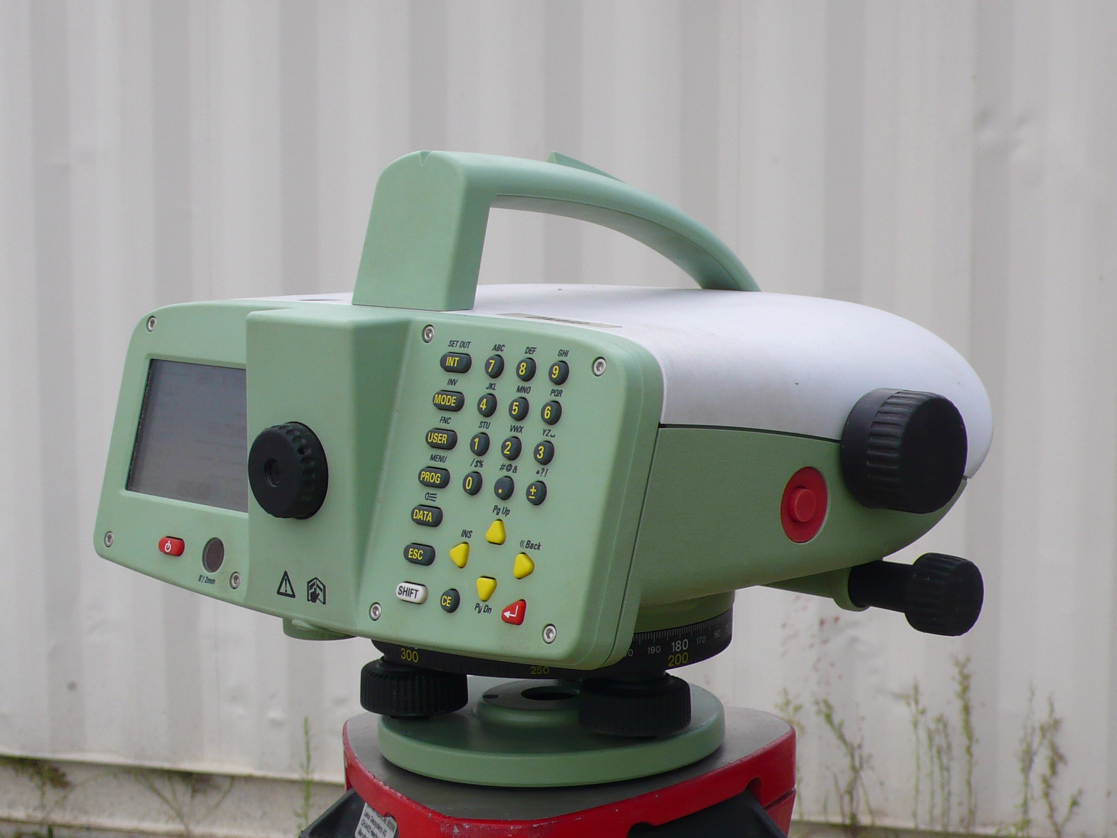 Level Leica DNA3: right side; push the red button to mesure.